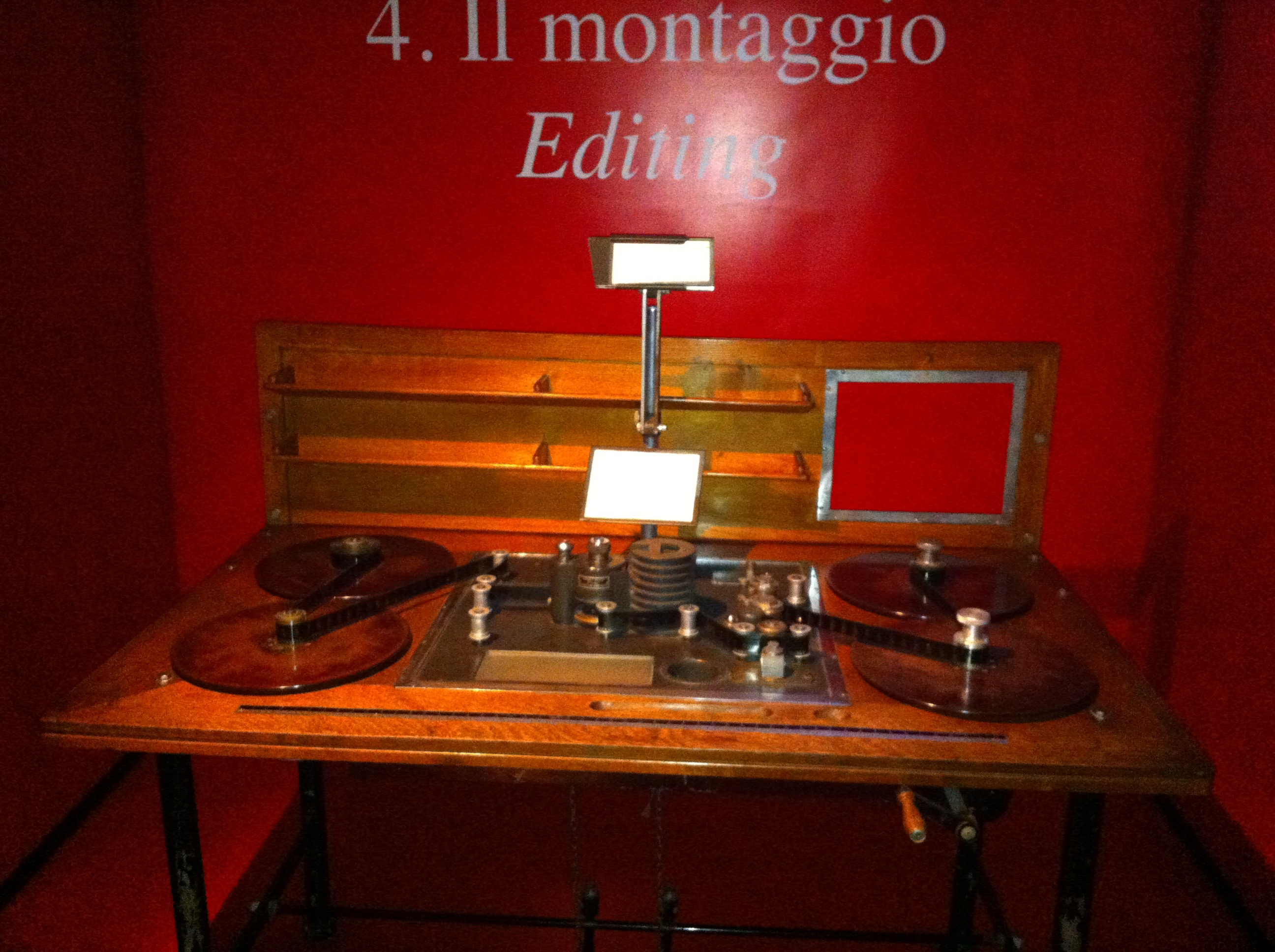 Moviola by factory Officine Prevost of the 30s (produced in the in via Forcella 9 factory in Milan) exposed at the Film Museum of Turin (Italy)